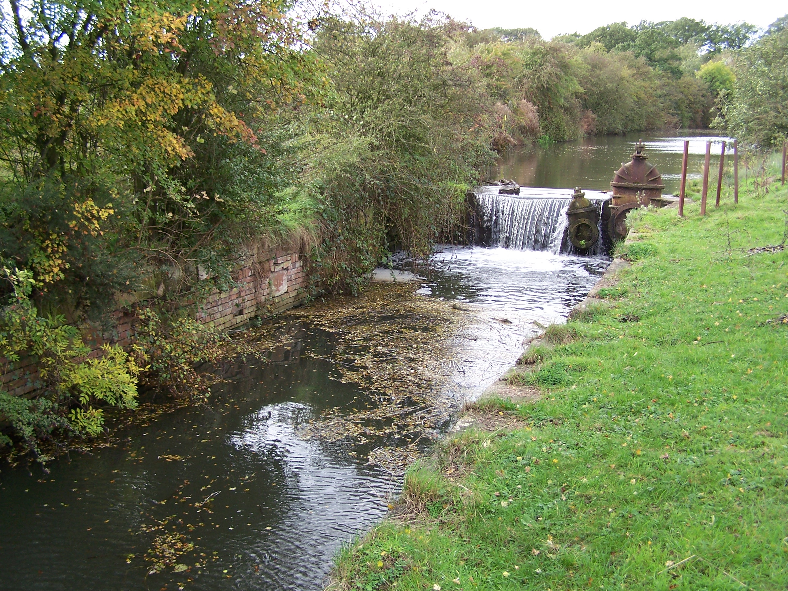 Author: Tina Cordon, Source: Own Picture Tina Cordon 17:07, 19 October 2006 (UTC)